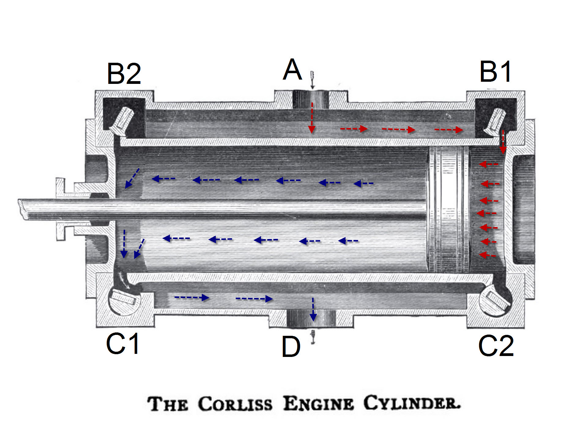 Diagram of a Corliss steam cylinder. Adapted from Stationary Steam Engines, by Robert Henry Thurston, 1888.